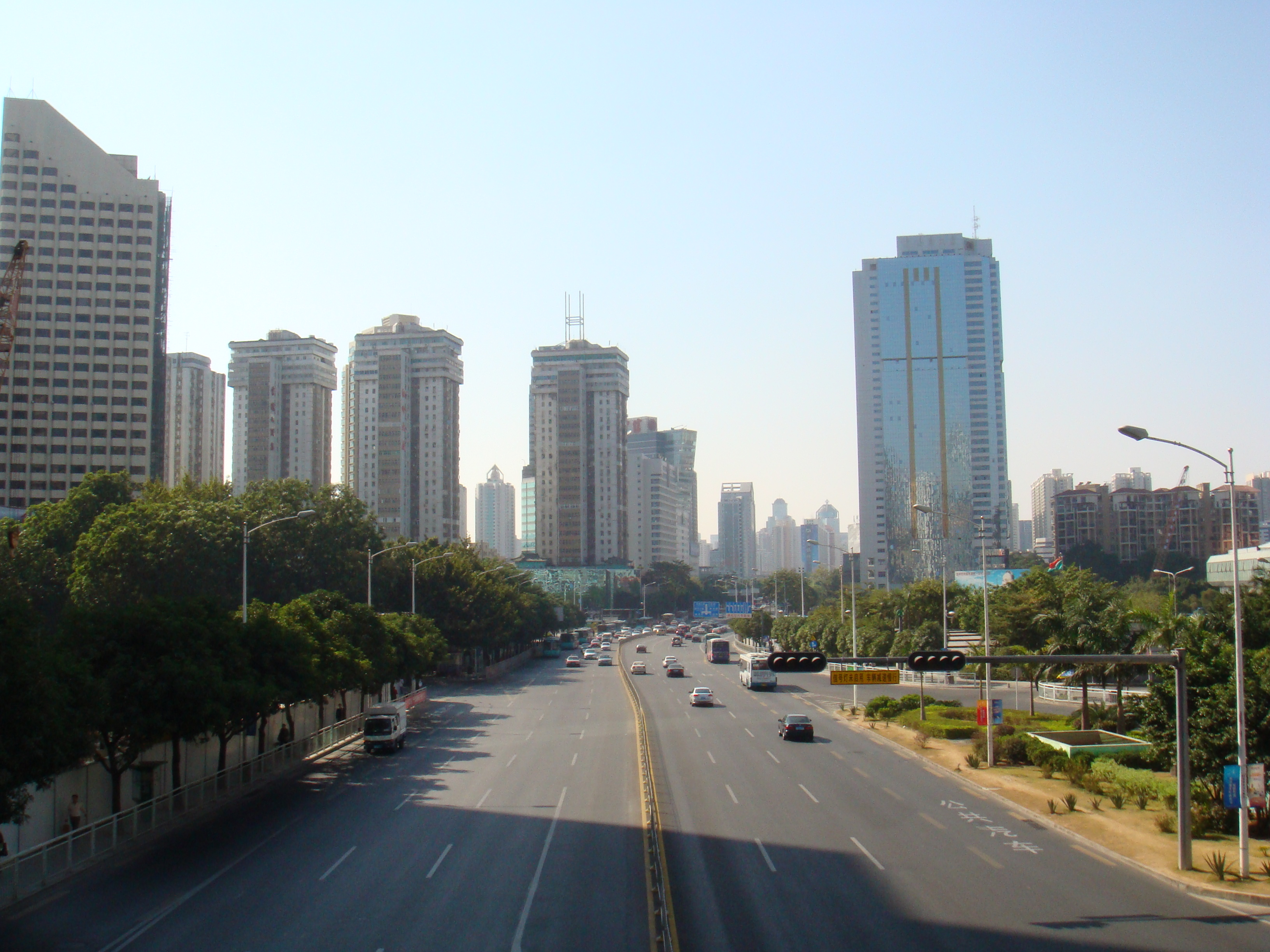 Shen Nan Rd. E&Mid